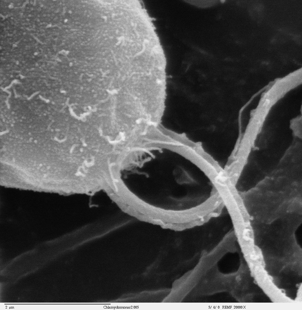 Scanning electron microscope image, showing an example of green algae (Chlorophyta). Chlamydomanas reinhardtii is a unicellular flagellate used as a model system in molecular genetics work and flagellar motility studies.